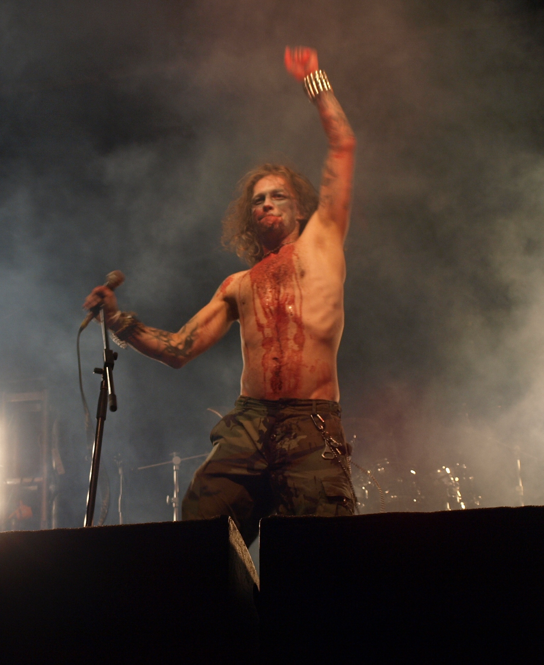 Finnish black metal band Barathrum live at Jalometalli 2008 in Oulu.